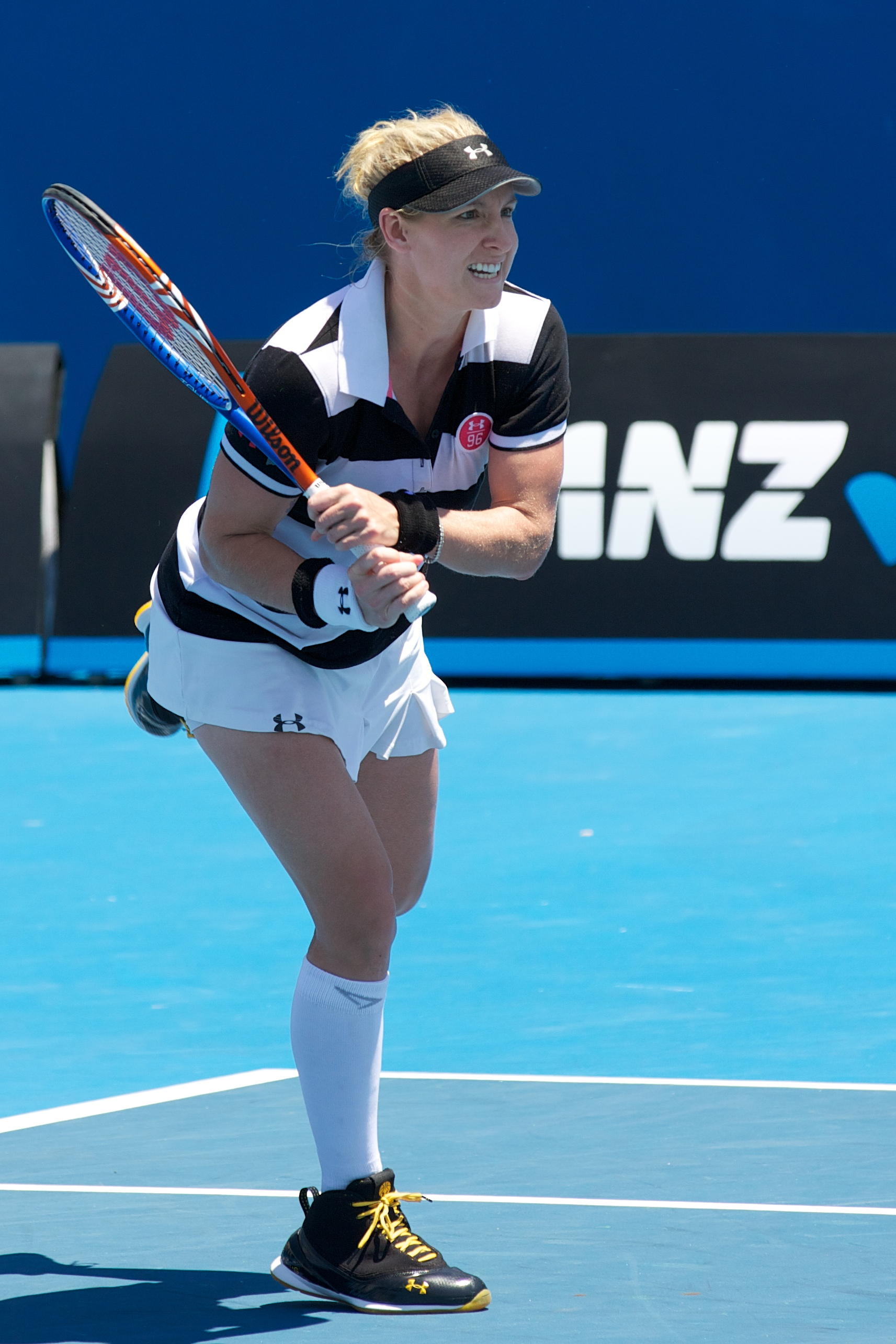 American Bethanie Mattek-Sands competes alongside compatriot Meghann Shaughnessy in the Women's Doubles division at the 2011 Australian Open